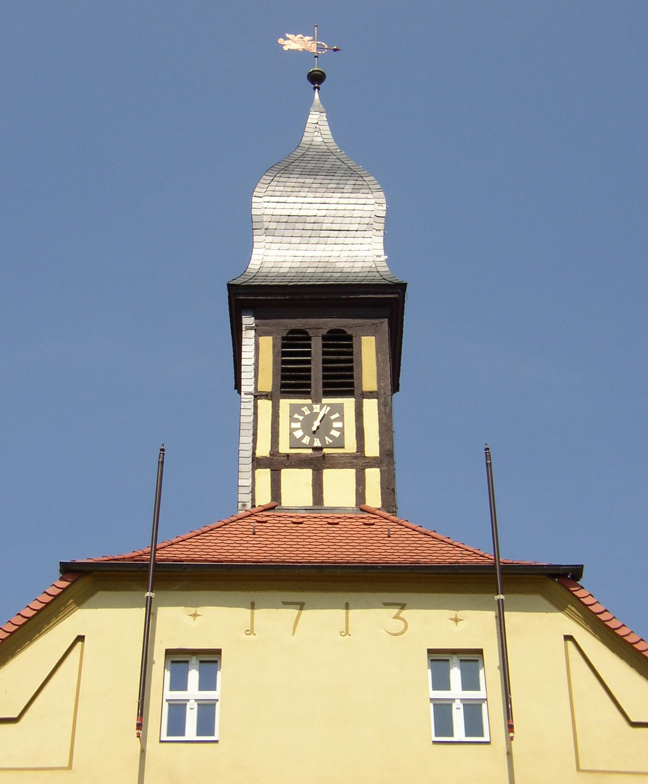 Clock with hour hand only at the town hall in Lenzen in Brandenburg, Germany